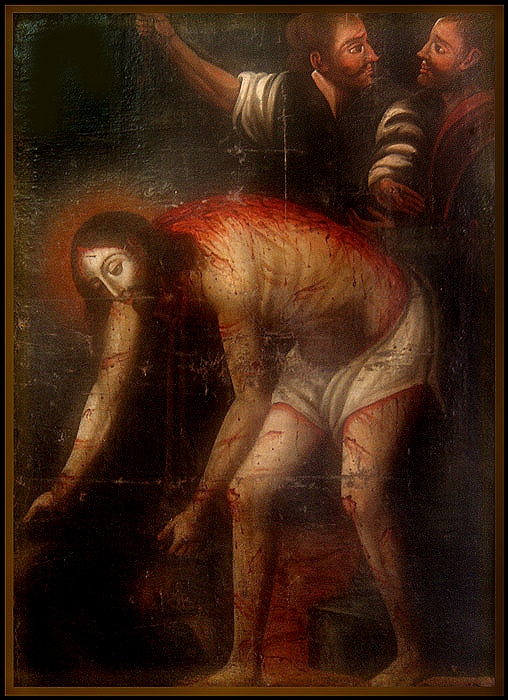 Jesus flagelado, autor desconhecido. século XVII. Museu de Arte Sacra de Pernambuco, Brasil.